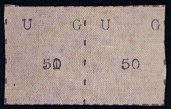 A pair of the 50 cowries Uganda Missionaries stamp, showing a typed-over correction. Sandafayre, Stamp Library